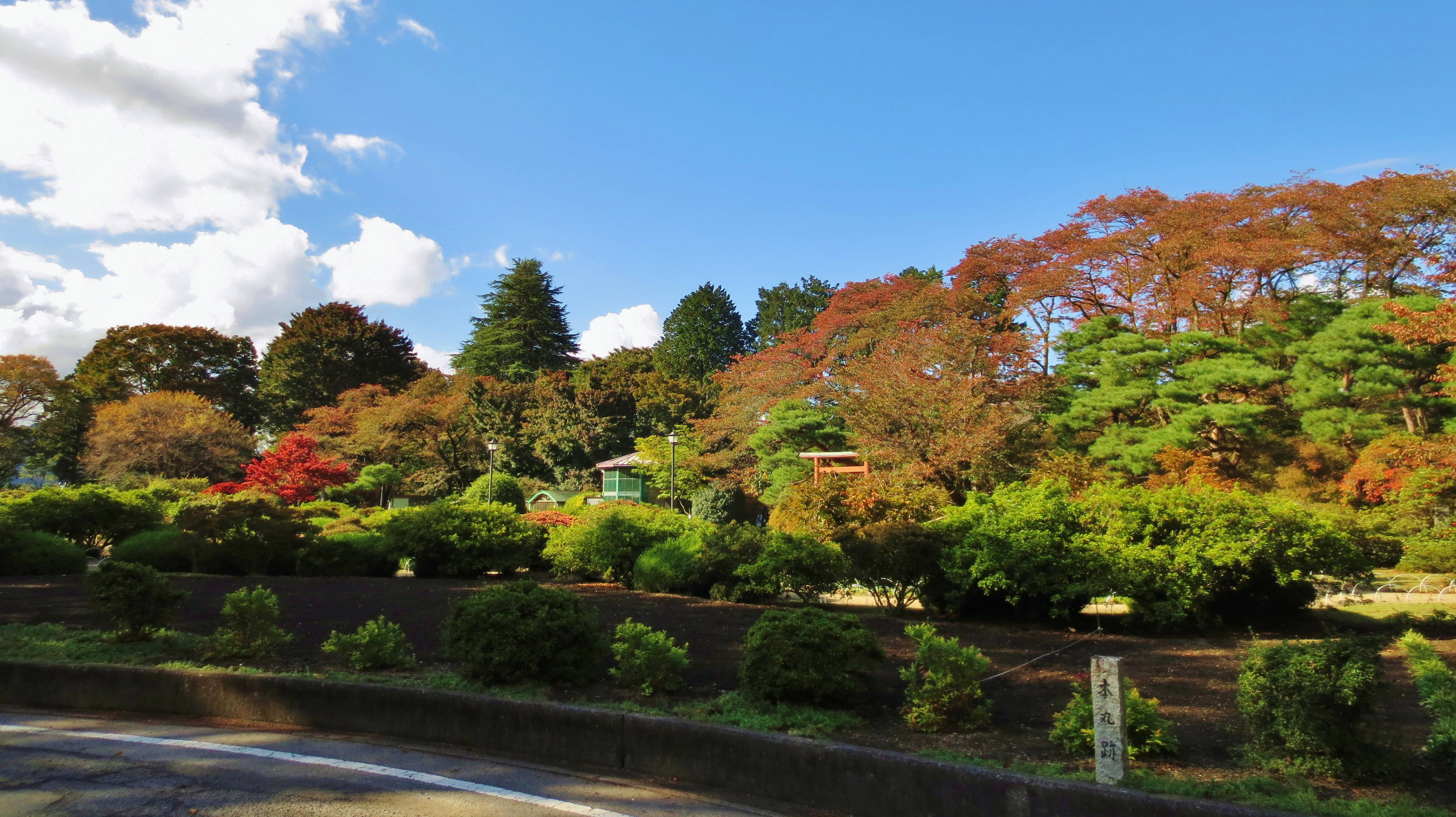 Numata Casle.